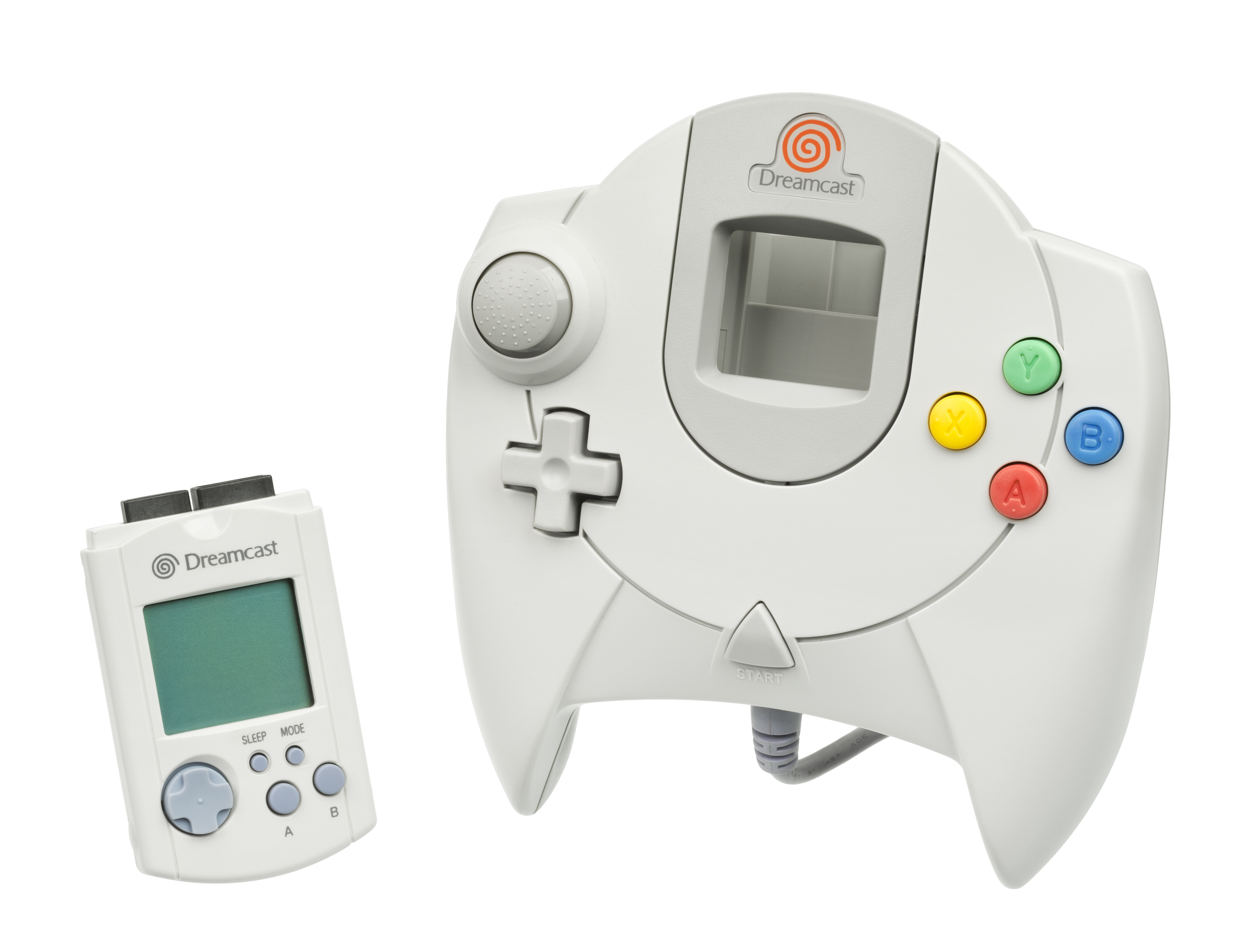 A standard North American Sega Dreamcast controller and VMU.